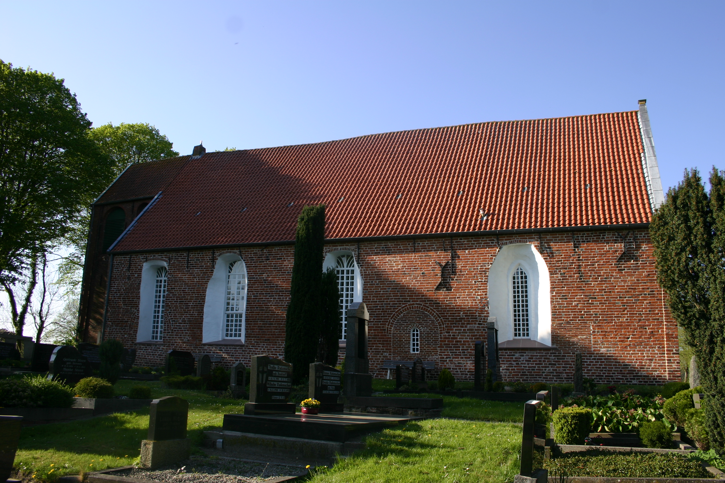 Historic church in Tergast, district of Leer, East Frisia, Germany